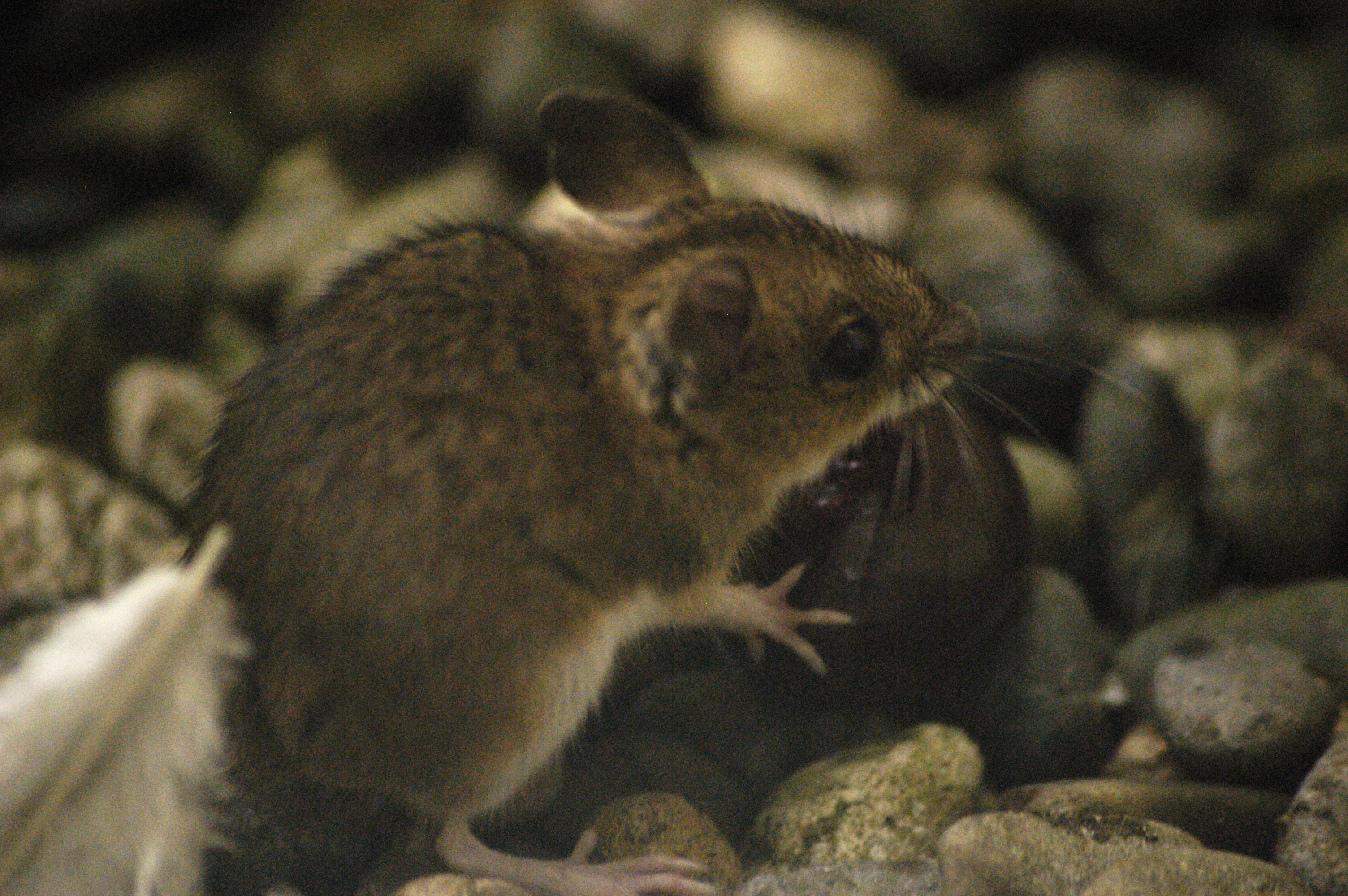 Wood mouse (Apodemus sylvaticus) on a cherry